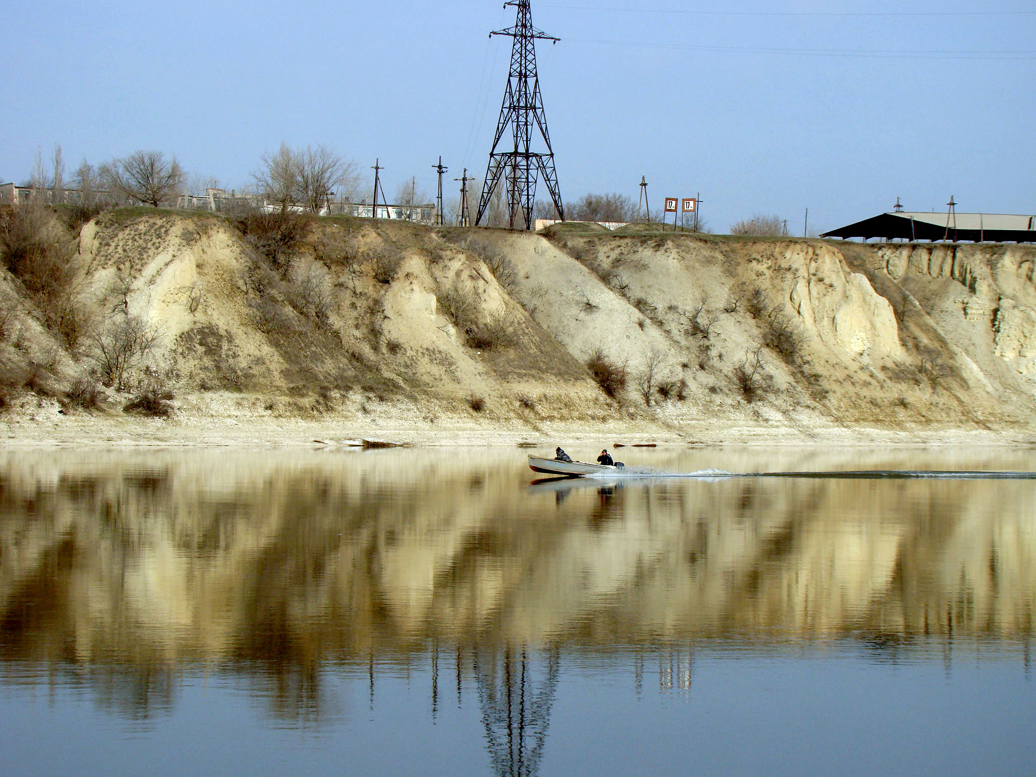 Trehostrovskaya. Natural Park "Don", Volgograd Region.